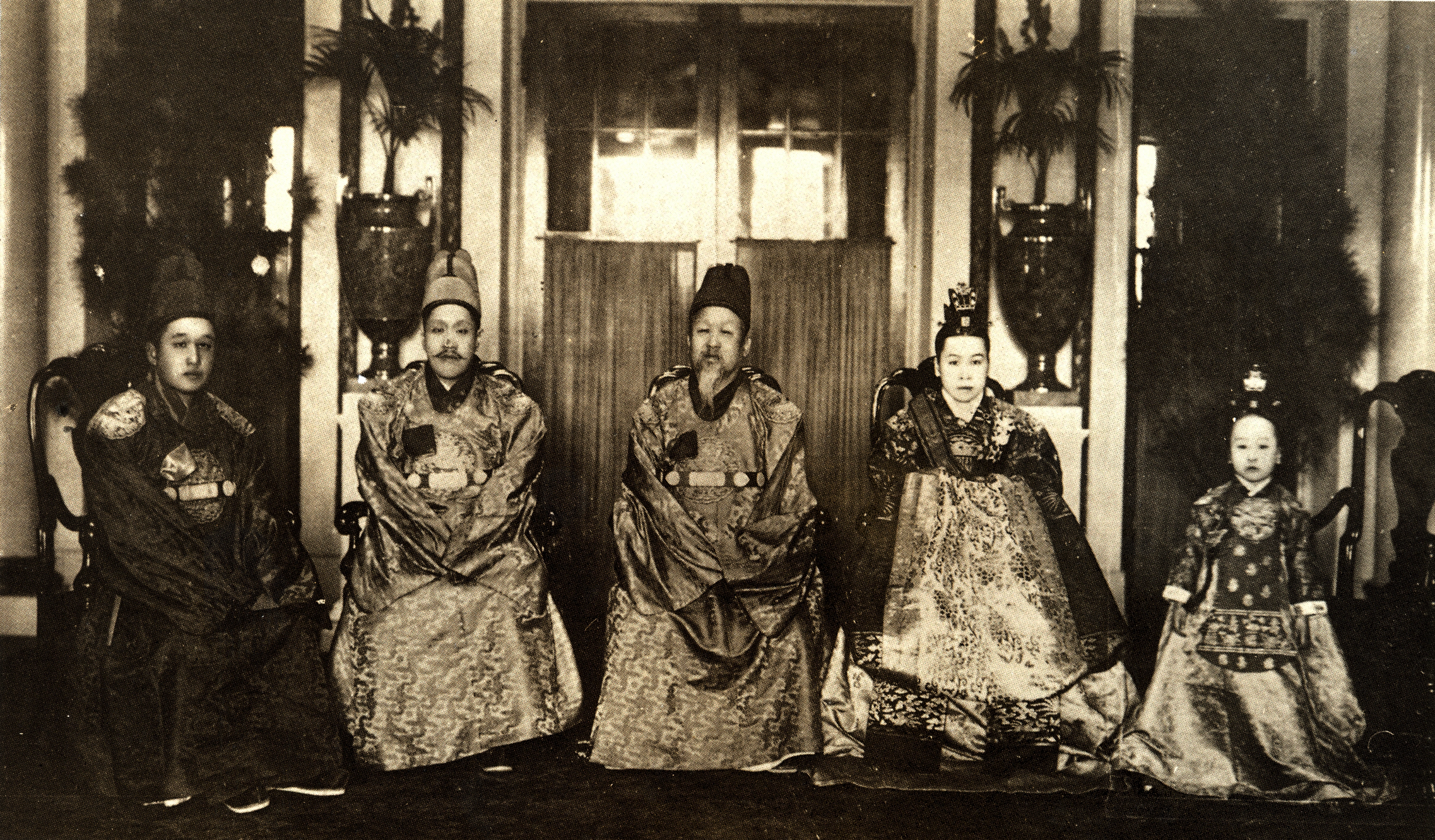 Imperial family of Korea, tasting Japanese cuisine at Deoksugung on Jan 20, 1918. From left to right, Crown Prince Uimin, Sunjong of the Korean Empire, Gojong of the Korean Empire, Empress Sunjeong, Princess Deokhye of Korea.